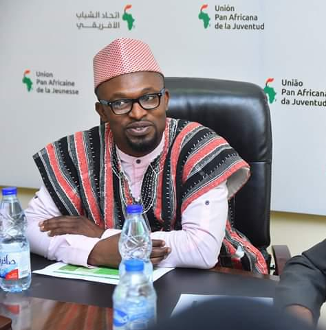 A picture of Ahmed Bening,Pan African Youth Union Deputy Secretary General.